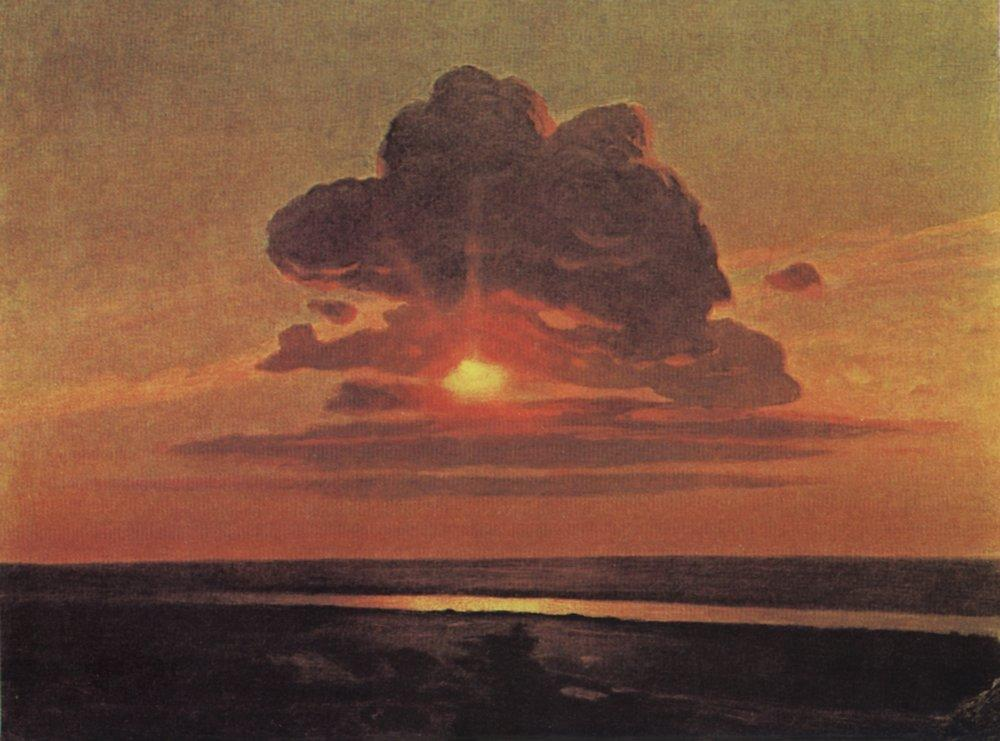 Red sunset (painting by Arkhip Kuindzhi, 1898-1908)